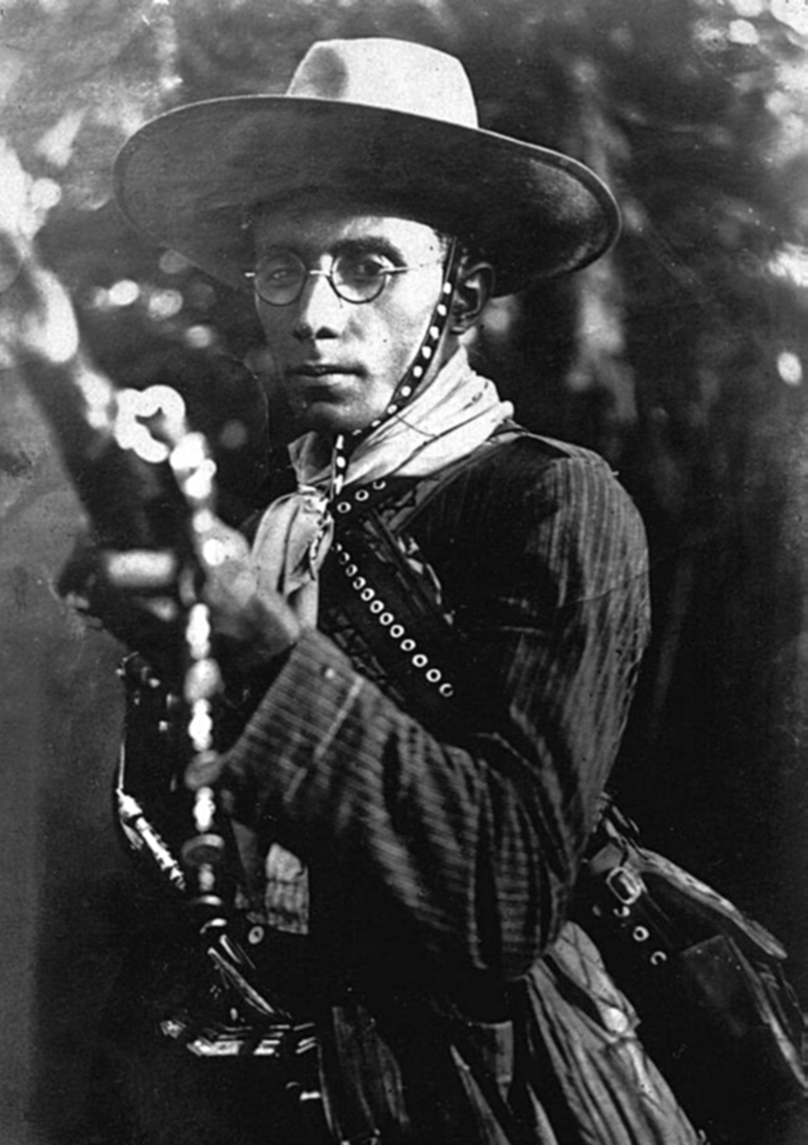 "Captain" Virgulino Ferreira da Silva, better known as Lampião, was the most famous bandit leader of the Cangaço. Cangaço was a form of banditry endemic to the Brazilian Northeast in the 1920s and 1930s.